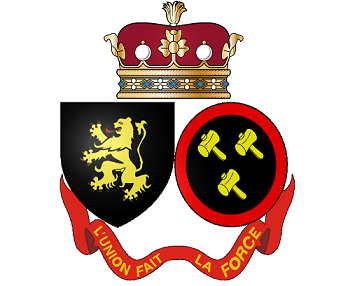 Coat of arms of Philippe and Mathilde, duke and duchess of Brabant